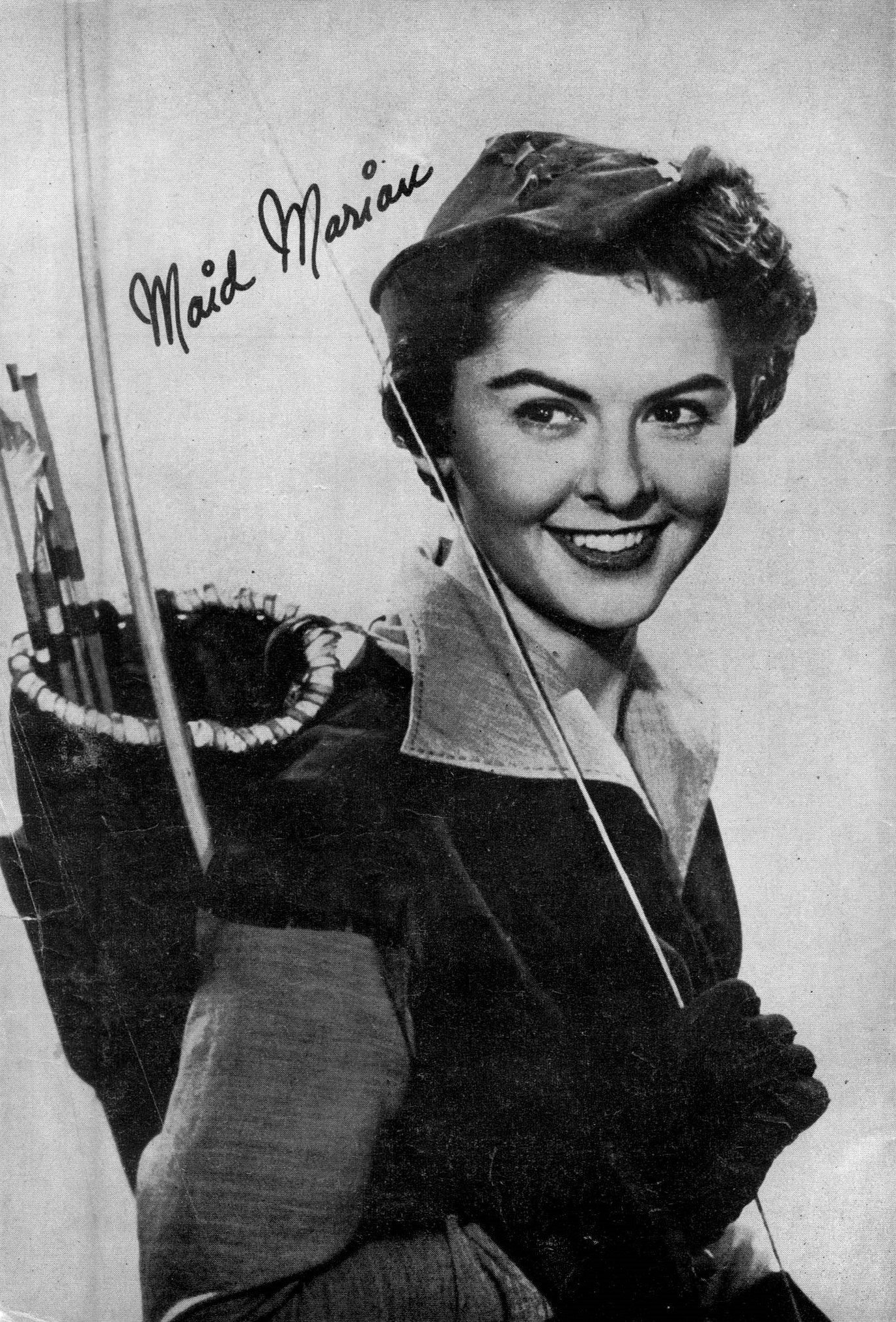 Portrait of Patricia Driscoll as Maid Marian